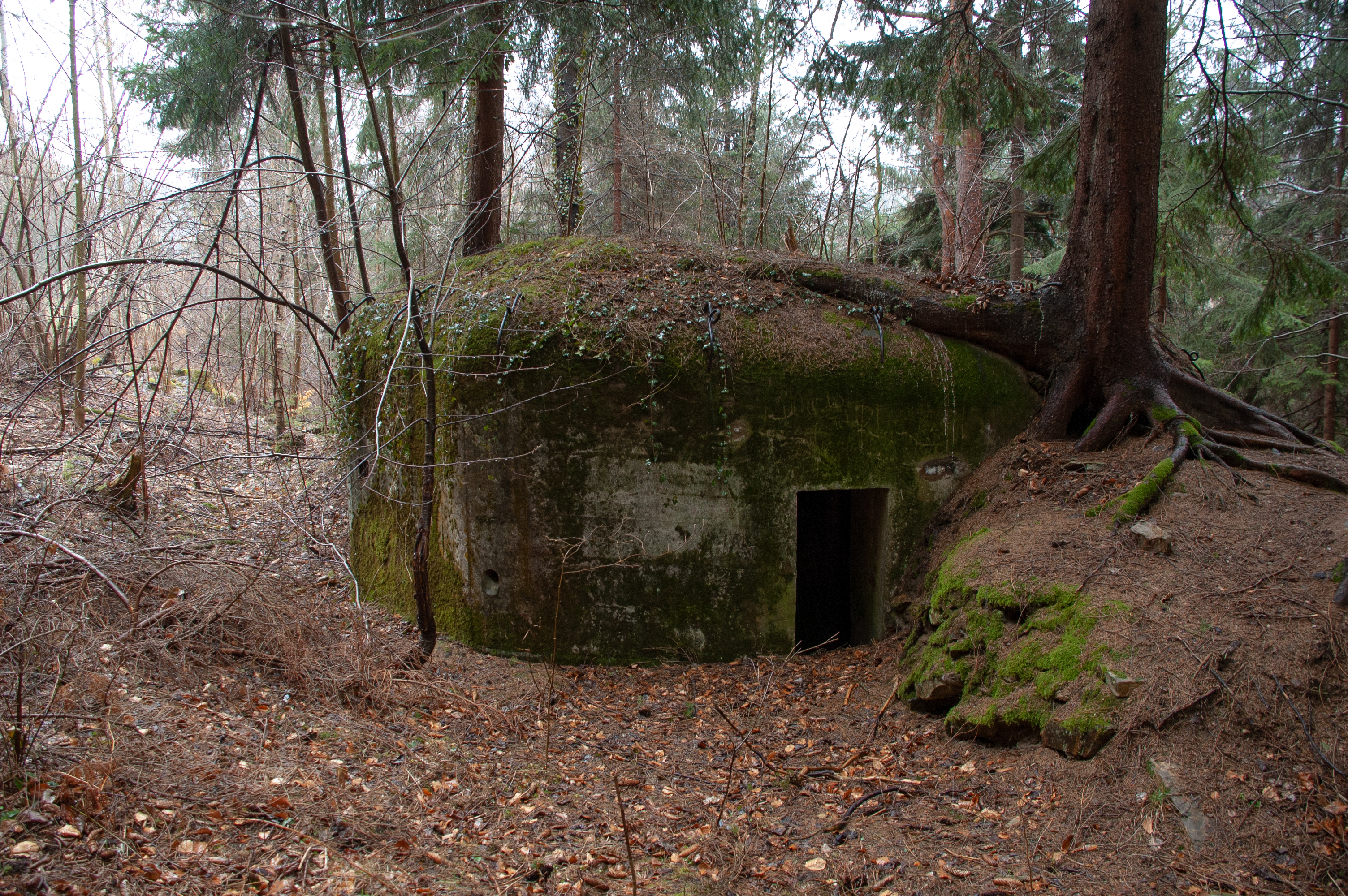 This image was created as a part of Editaton Prachatice (Czech).